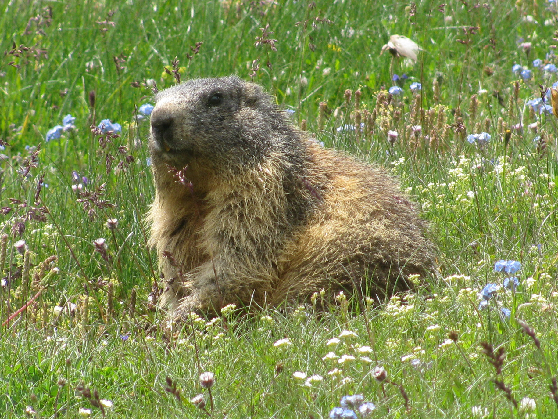 Marmota marmota in summer.